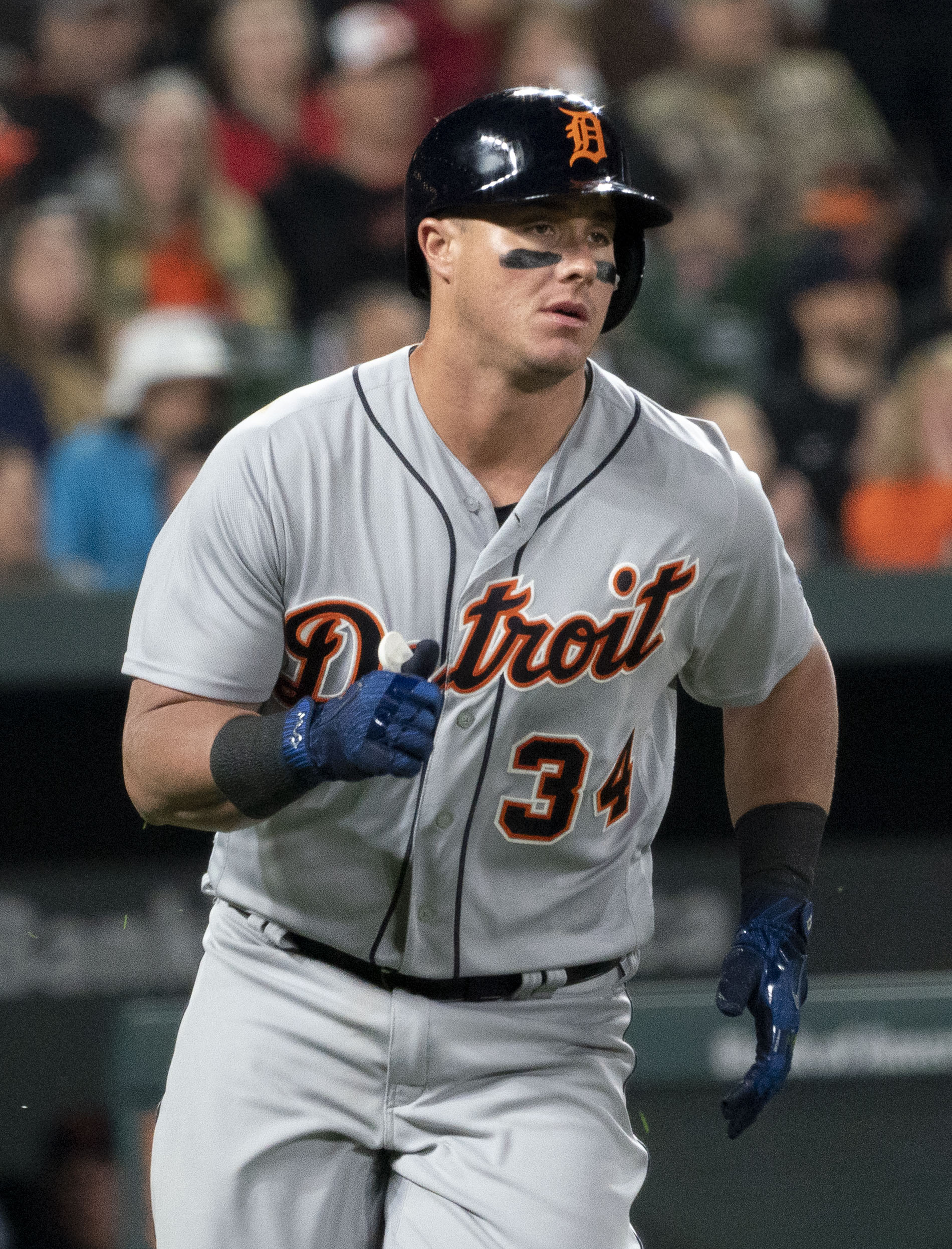 Detroit Tigers catcher James McCann on April 28, 2018.